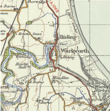 OS map of Warkworth in 1945. Scale 1:63360 (ie: one inch to one mile)